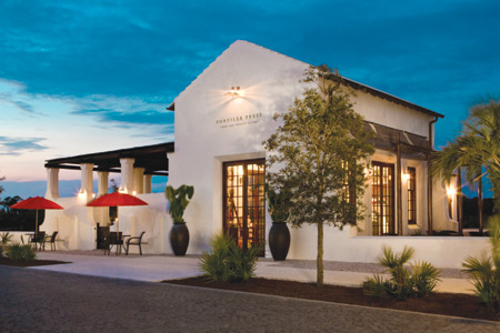 Fonville Press, Alys Beach, Florida. Photographed by Jack Gardner